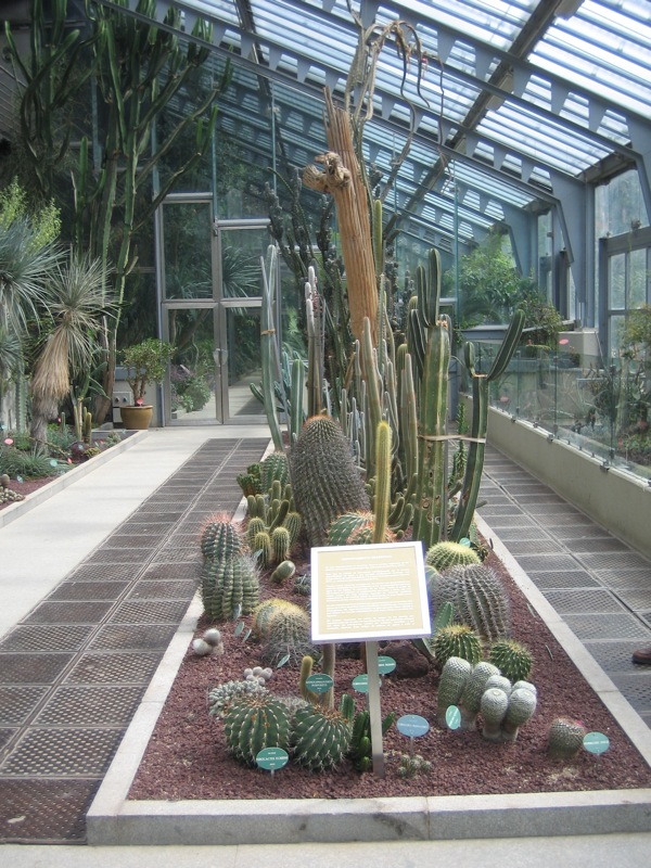 Greenhouse in the Royal Botanical Garden of Madrid (Spain).